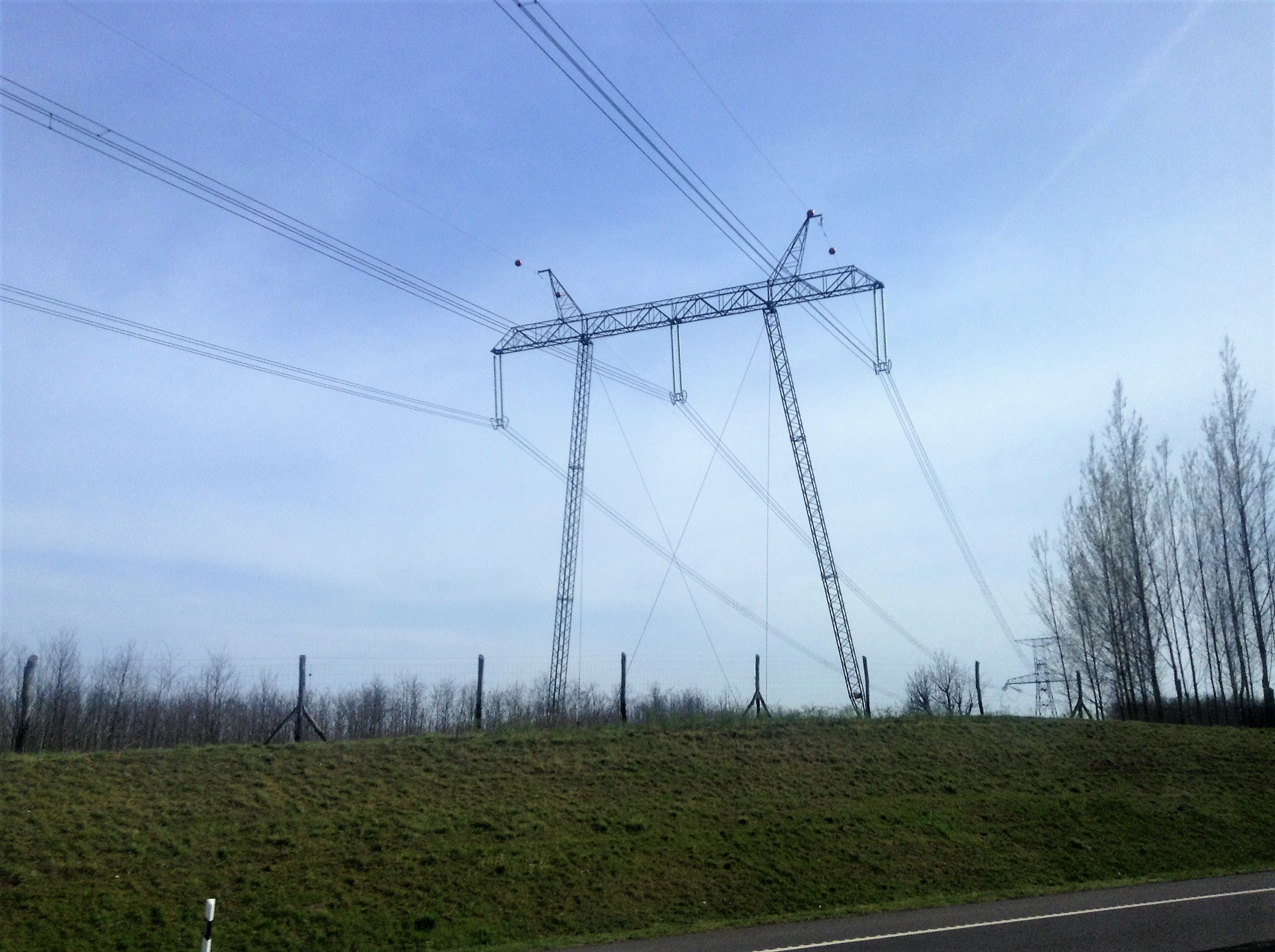 Albertirsa–Zakhidnoukrainskaya–Vinnytsia powerline meets the Highway M3 in Hungary.